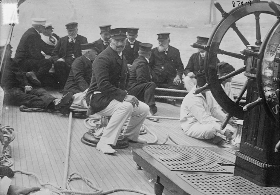 The German emperor Wilhelm II on his sailing yacht SMY Meteor (IV?) on 15 May 1913.